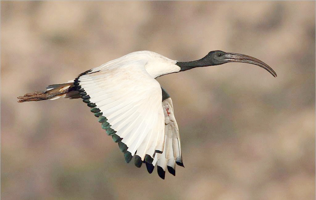 Threskiornis aethiopicus (Latham, 1790) - Pilanesberg Nature Reserve, South Africa